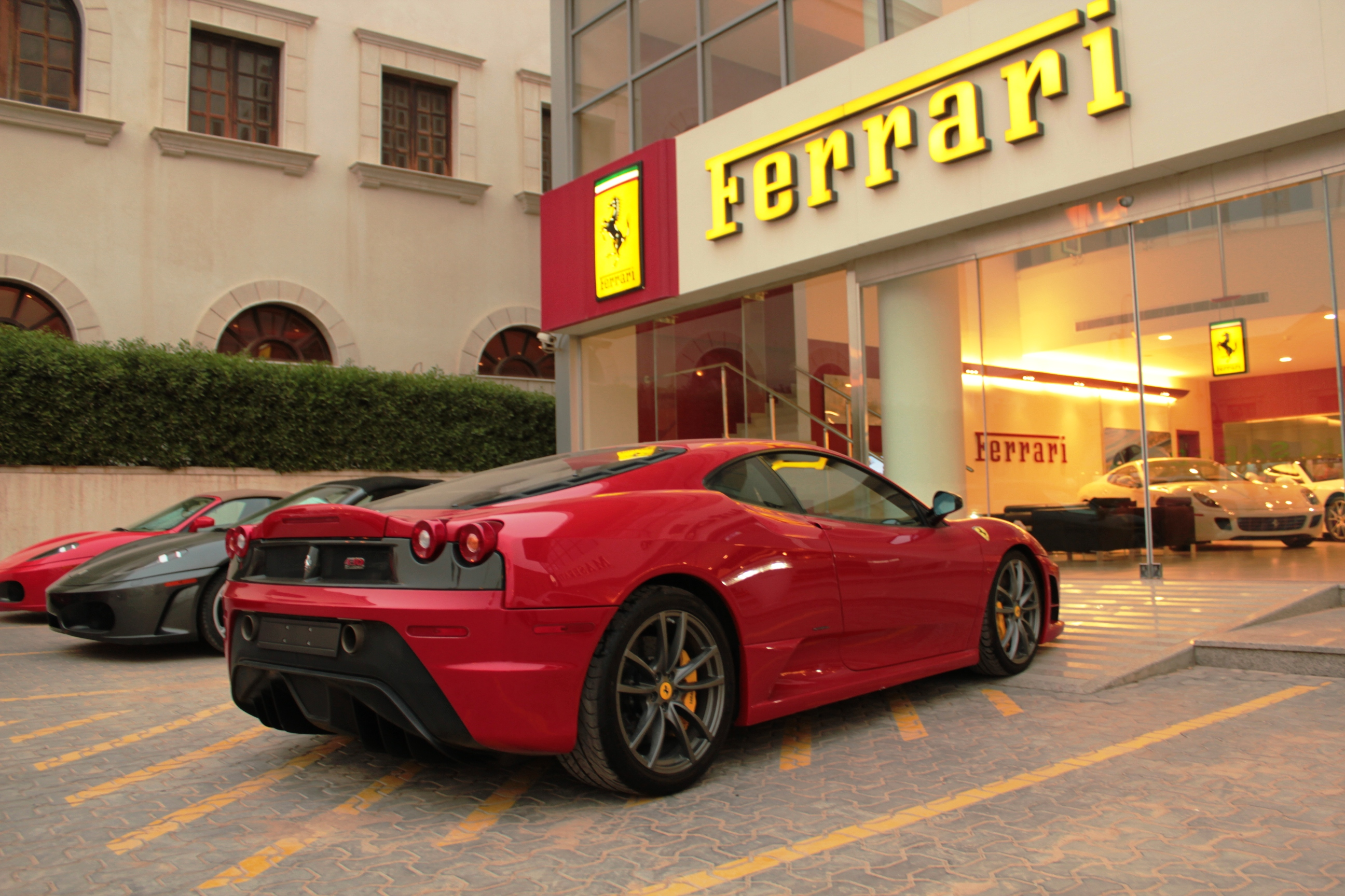 Ferrari 430 Scuderia outside Ferrari in Riyadh,KSA